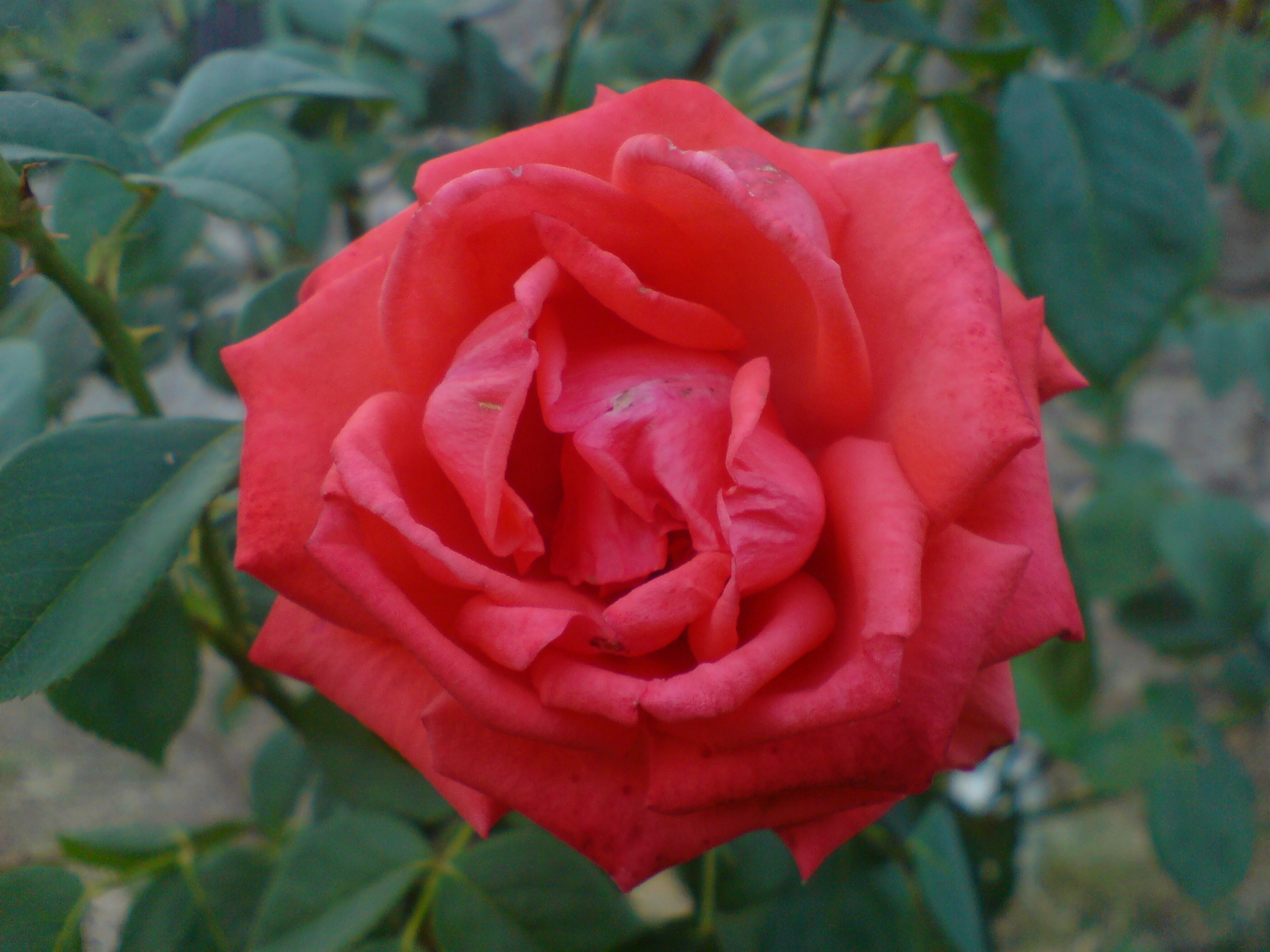 A red rose. Taken on 15/09/2007 in Amarandos (Karditsa), Greece.